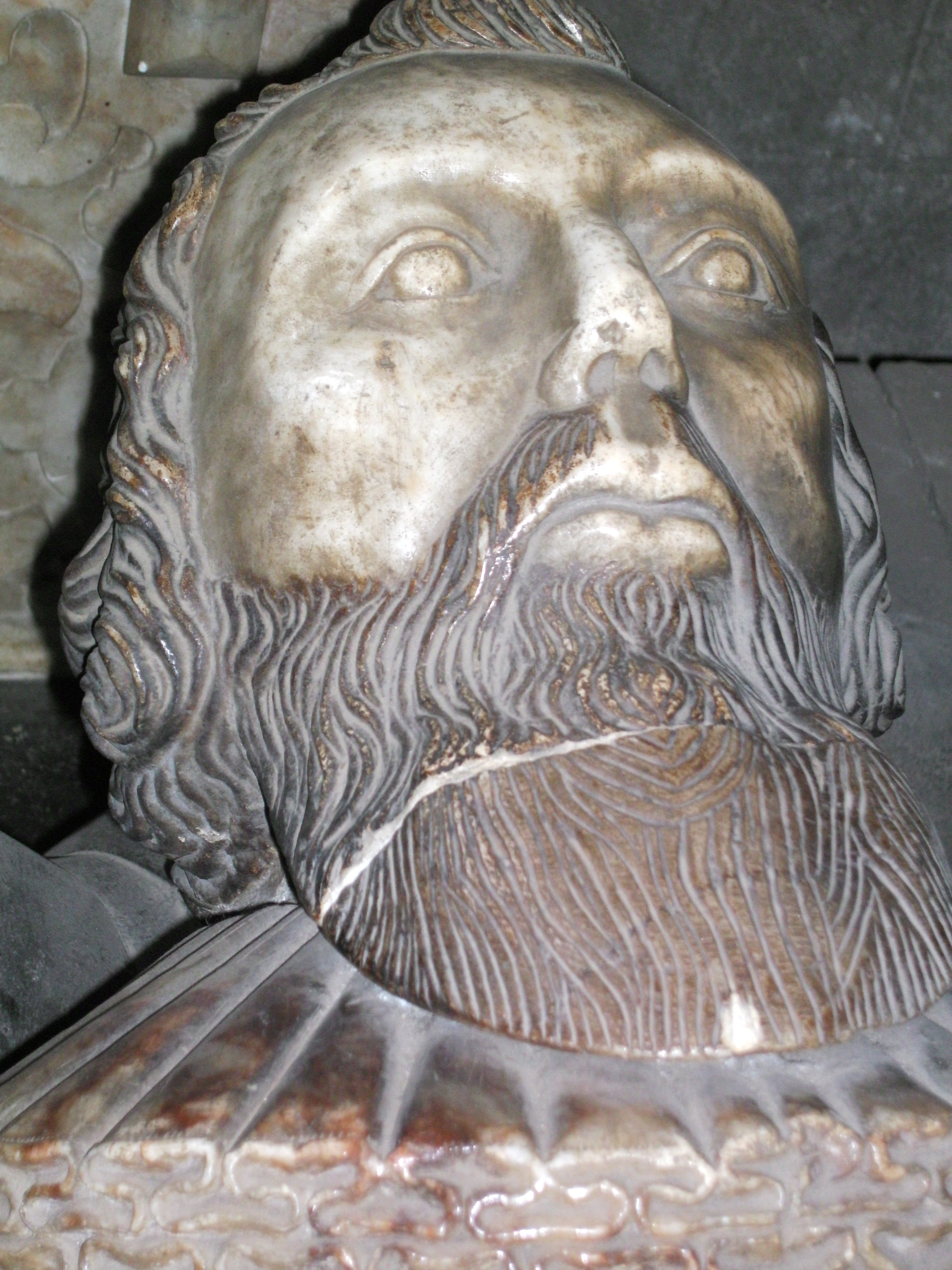 St. Michael and All Angels parish church, Penkridge, Staffordshire: alabaster effigy of Sir Edward Littleton (died 1610) on lower stage of double tomb, against east wall.